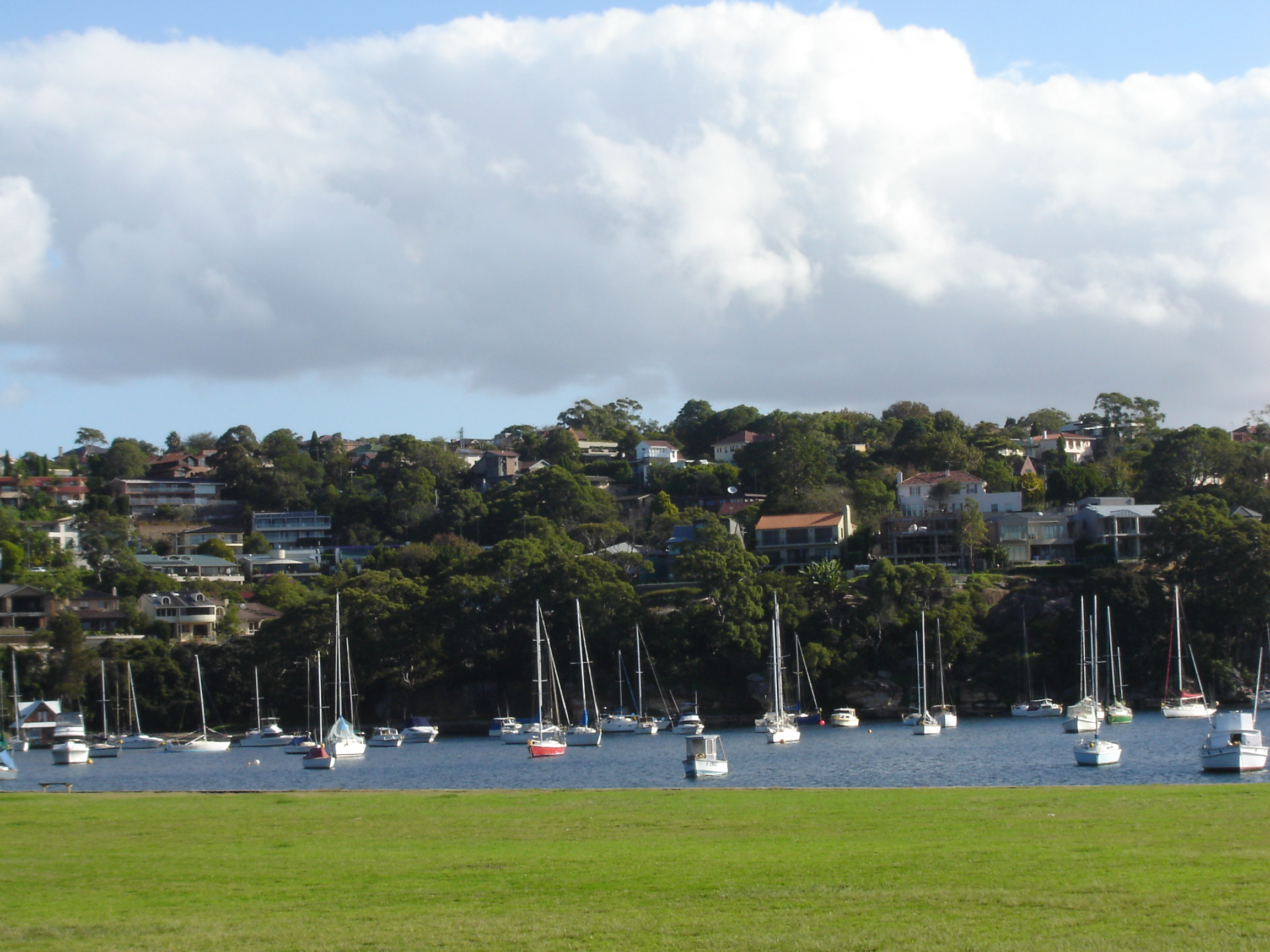 Yachts on the water in Mosman, Sydney, Australia.